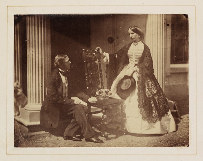 Teitl Cymraeg/Welsh title: Calvert Richard Jones a dynes (Portia Smith o bosib, ei ail wraig) o flaen adeilad colofnog Nodyn/Note: Rev. Calvert Richard Jones took the earliest known Welsh photograph - a daguerreotype of Margam Castle, in 1841, more information can be found at: Dyddiad/Date: c. 1855-1860 Cyfeiriad/Reference: crj00011 (PG2064/4) Rhif cofnod / Record no.: 3590900 Rhagor o wybodaeth am Ffotograffiaeth Gynnar Abertawe yn Llyfrgell Genedlaethol Cymru More information about Early Swansea Photography at the National Library of Wales